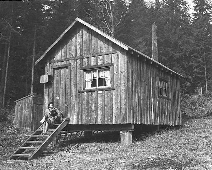 West Vancouver, 1942, 15th and Ottawa Ave. William Mcphee photo of an unknown woman